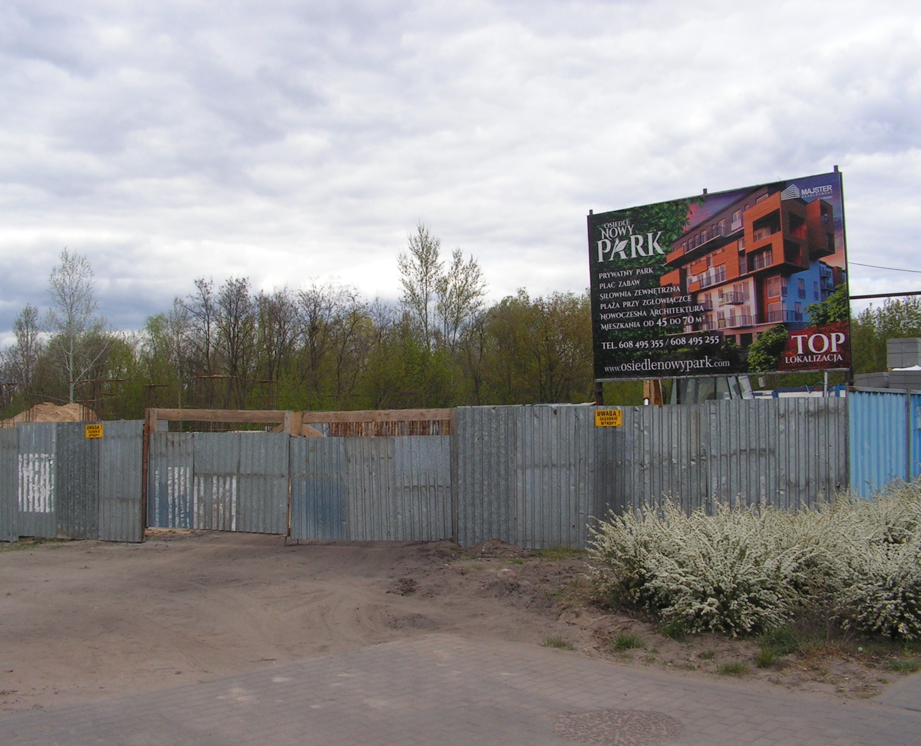 Construction site of Osiedle Nowy Park (New Park Settlement) at Kapitulna Street in Włocławek. It is building in place, where formerly were ruins. It will be taking place up to the Zgłowiączka river, were will be private beach. On the settlement will be also private park, outdoor gym and playground.